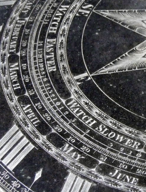 1812 sundial made by Whitehurst & Son of Derby and set for Belper